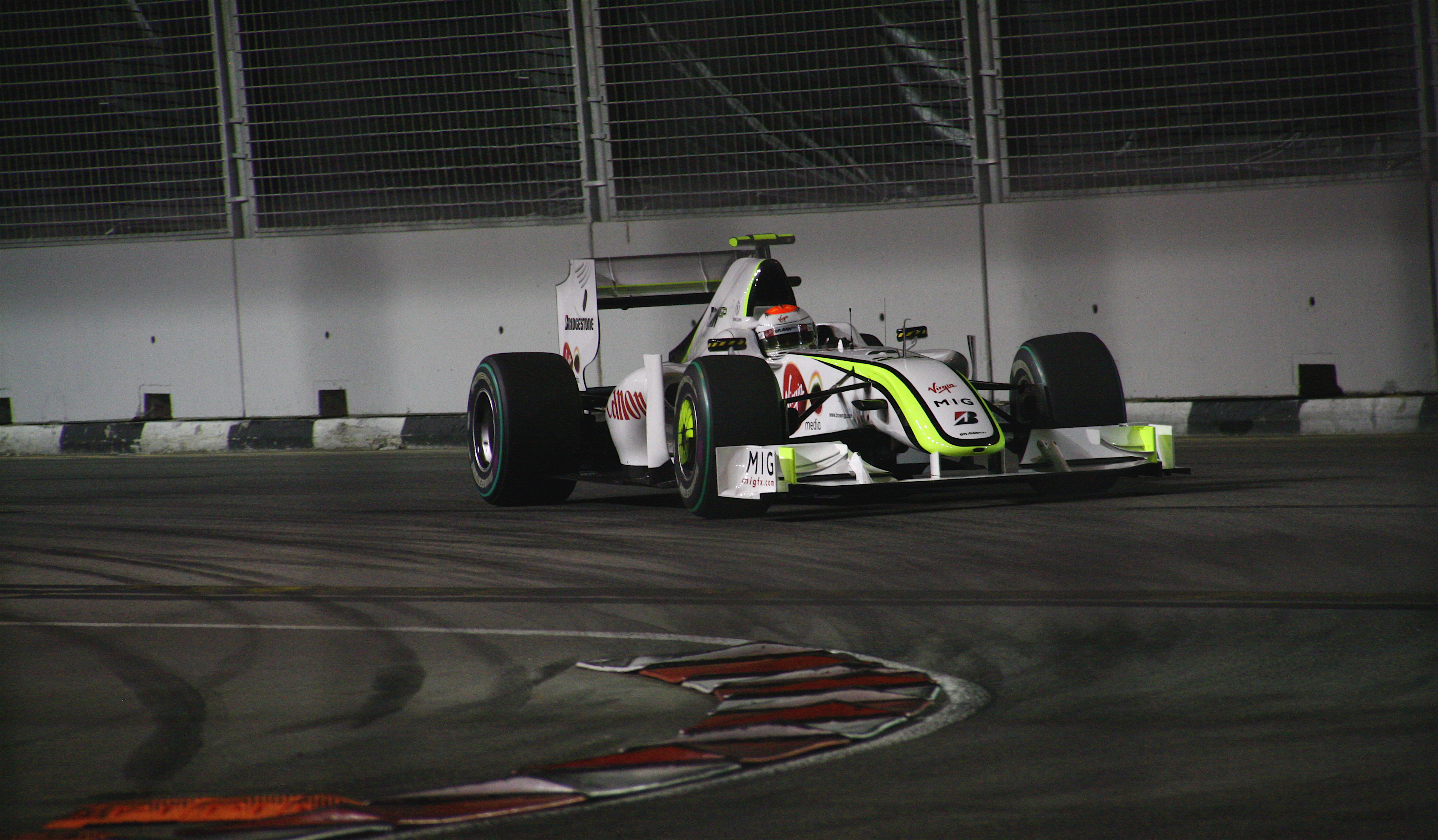 Rubens Barrichello driving for Brawn GP at the 2009 Singapore Grand Prix.